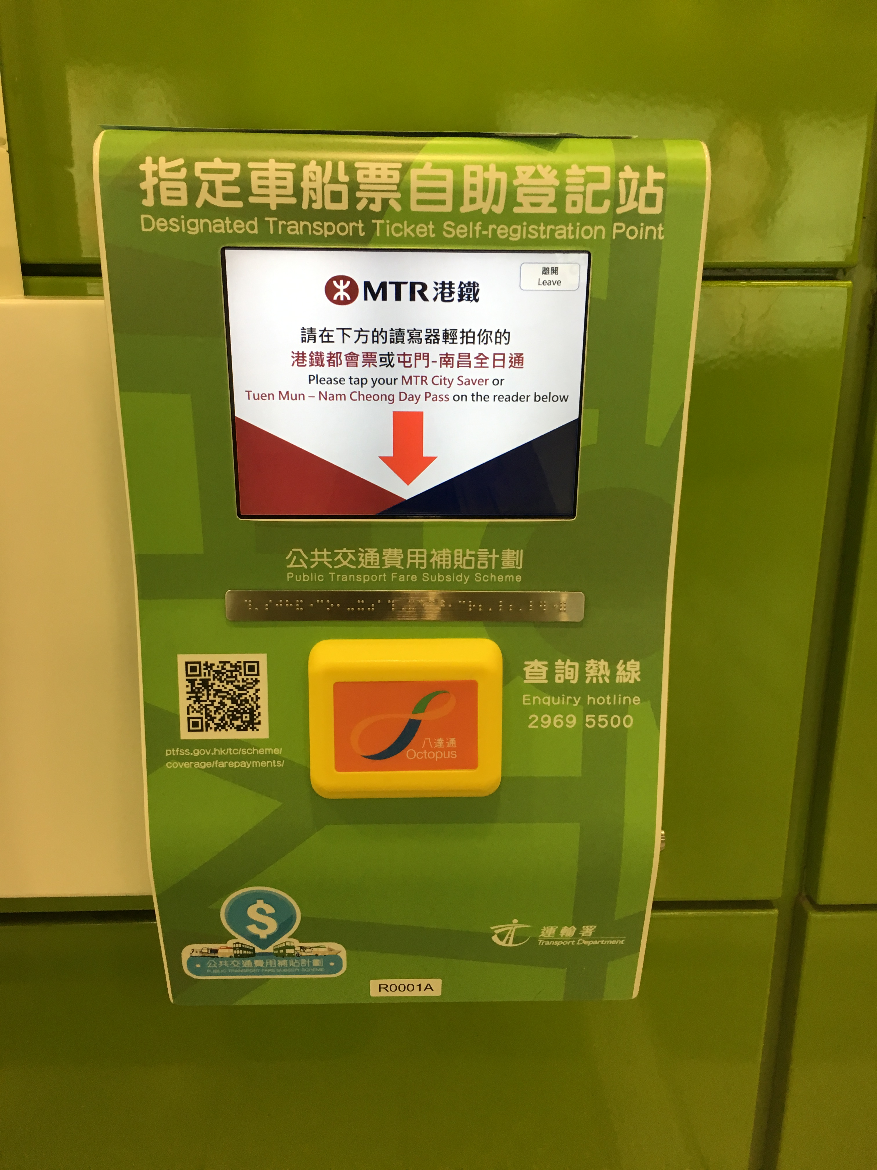 中文（香港）: This photo is taken in South Horizons Station.